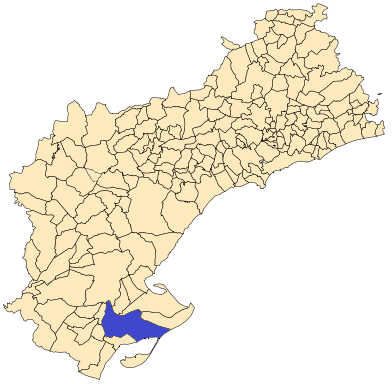 Amposta